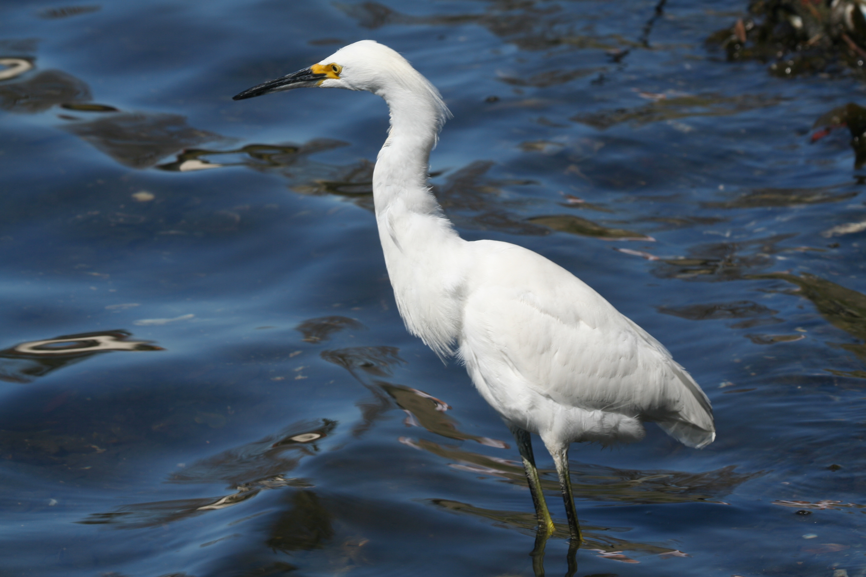 Photographed by and copyright of (c) David Corby (User:Miskatonic, uploader) 2006 Species: Egretta thula (Snowy Egret) Taken at Lake Merritt